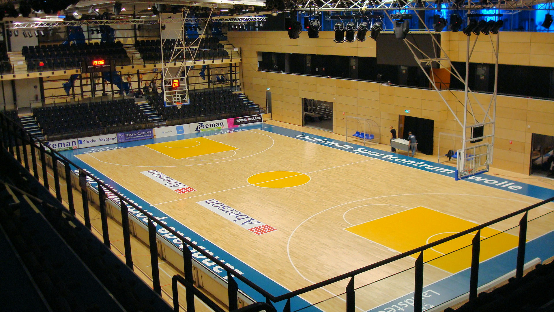 Centre Court Landstede Sportcentrum